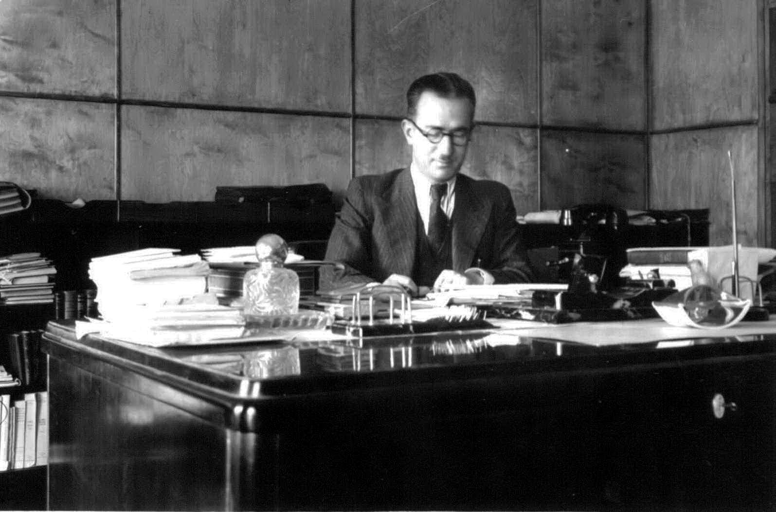 Ahmad Matin-Daftari in his office-1938